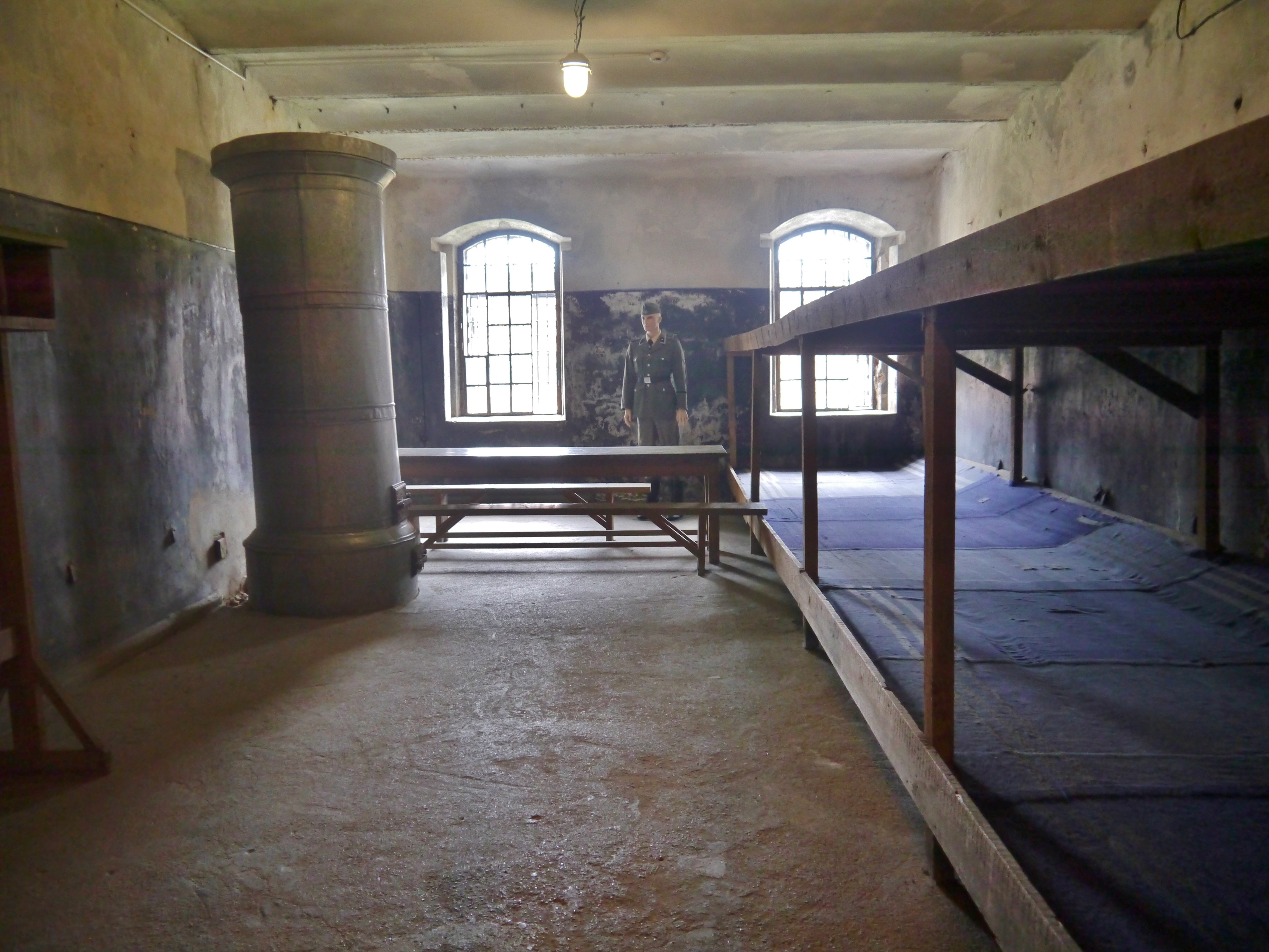 inside IX Fort, Kaunas, Lithuania